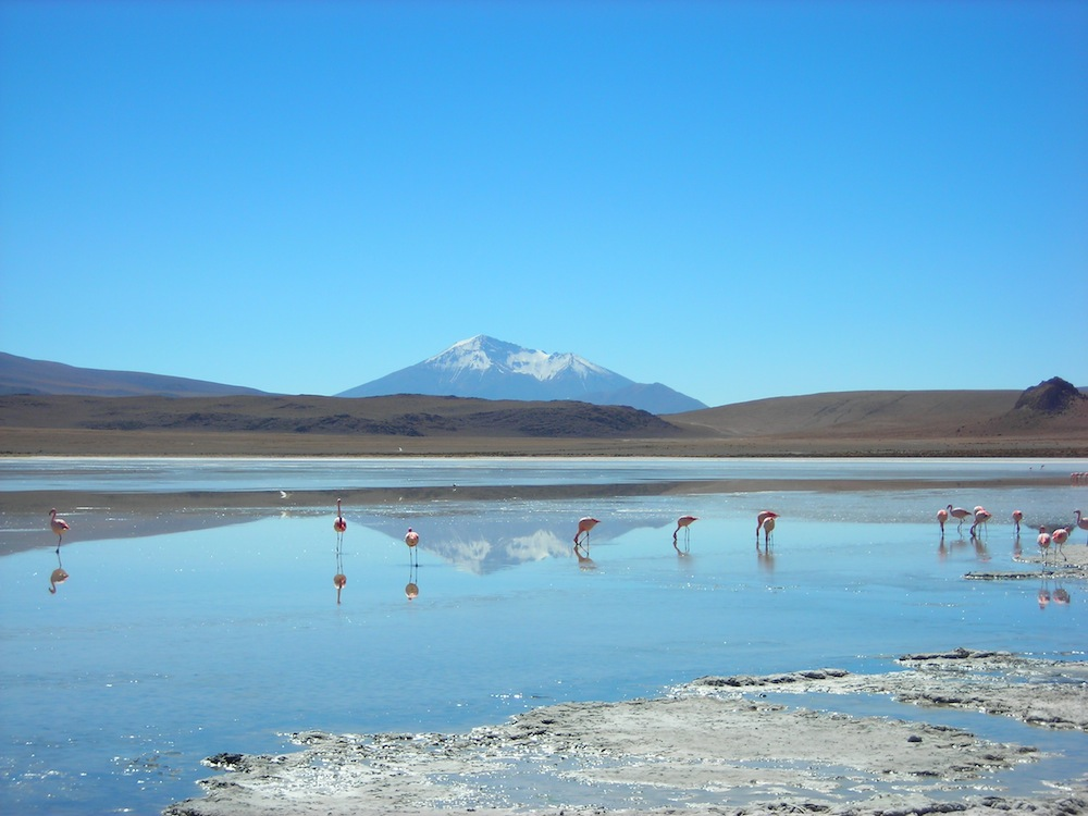 Puna flamingos (Phoenicoparrus jamesi) foraging in an altiplano lake in the Andes of southwest Bolivia